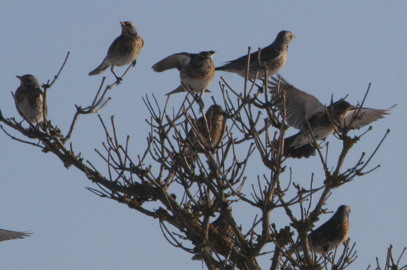 part of a large flock of fieldfares near Olching in Bavaria